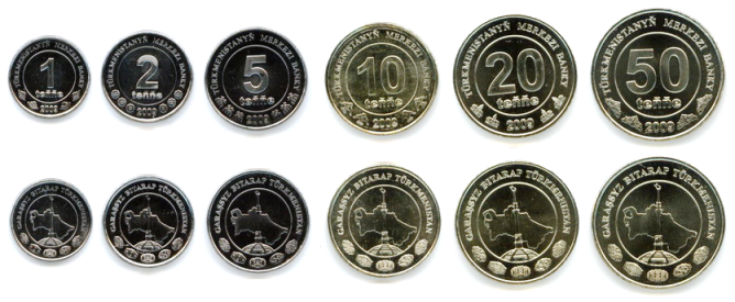 Scan of the coins